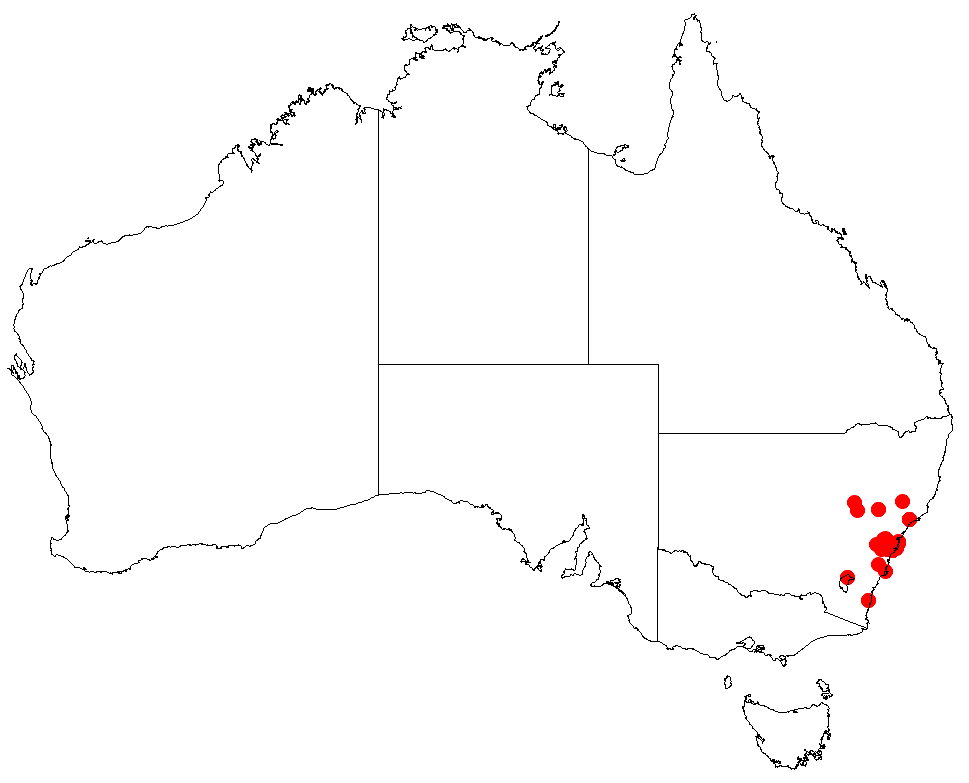 Macrozamia spiralis occurrence data downloaded from Australasian Virtual Herbarium using